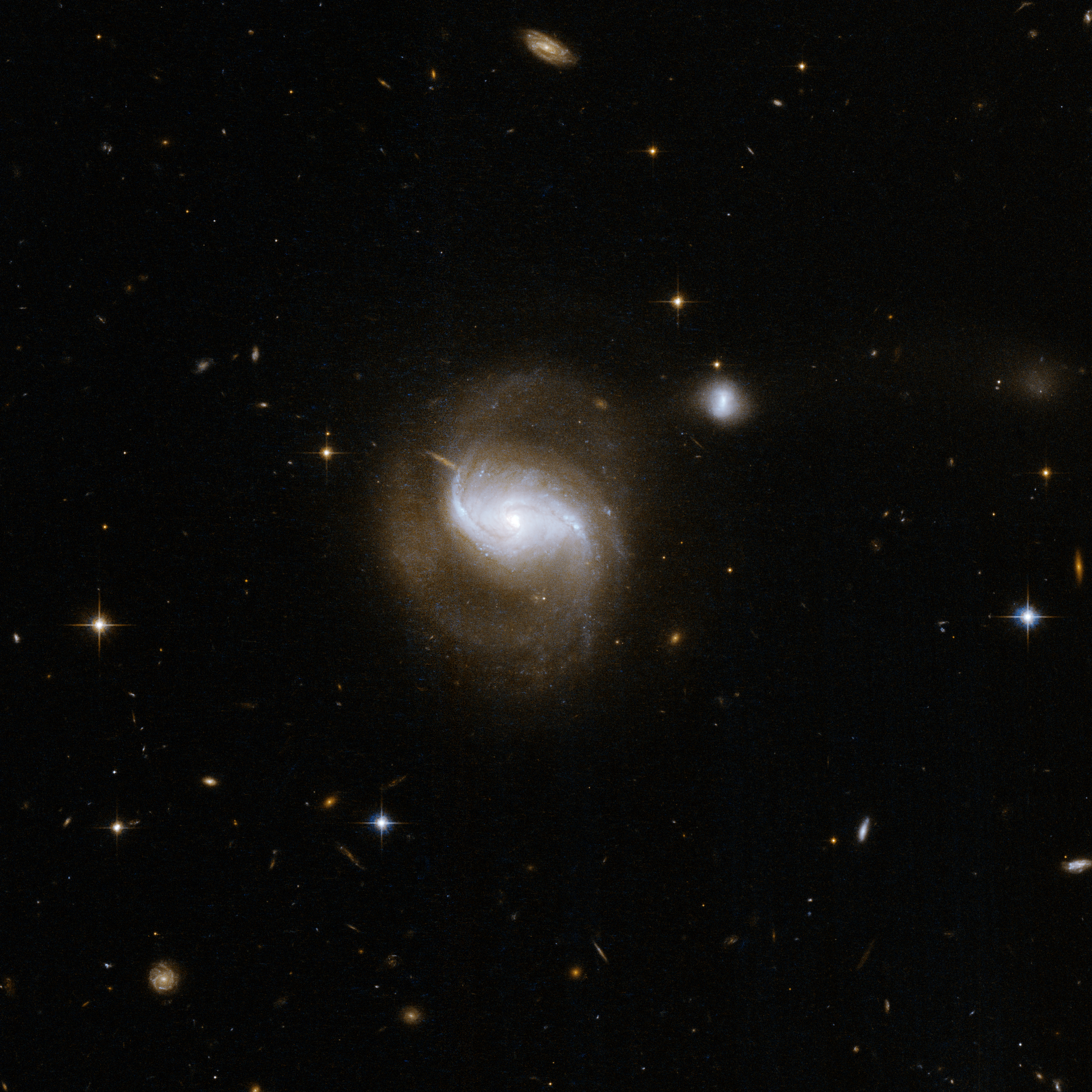 IC 5298 is a beautiful face-on spiral galaxy with two long arms extending from the central bulge and curving back amongst the scattered stars, gas and dust. A nearby smaller companion is linked by a bridge of matter to the principal galaxy in an interaction reminiscent of the famous Whirlpool Galaxy, M51. There is also a third faint, irregular galaxy, visible at the top of the image that is also linked by a bridge of matter and probably involved in the interaction. This image is part of a large collection of 59 images of merging galaxies taken by the Hubble Space Telescope and released on the occasion of its 18th anniversary on 24th April 2008. About the objectObject nameIC 5298Object descriptionInteracting GalaxiesPosition (J2000)23 16 00.79 +25 33 26.7ConstellationPegasusDistance350 million light-years (100 million parsecs)About the dataData descriptionThe Hubble image was created using HST data from proposal 10592: A. Evans (University of Virginia, Charlottesville/NRAO/Stony Brook University)InstrumentACS/WFCExposure date(s)August 15, 2002Exposure time33 minutesFiltersF435W (B) and F814W (I)